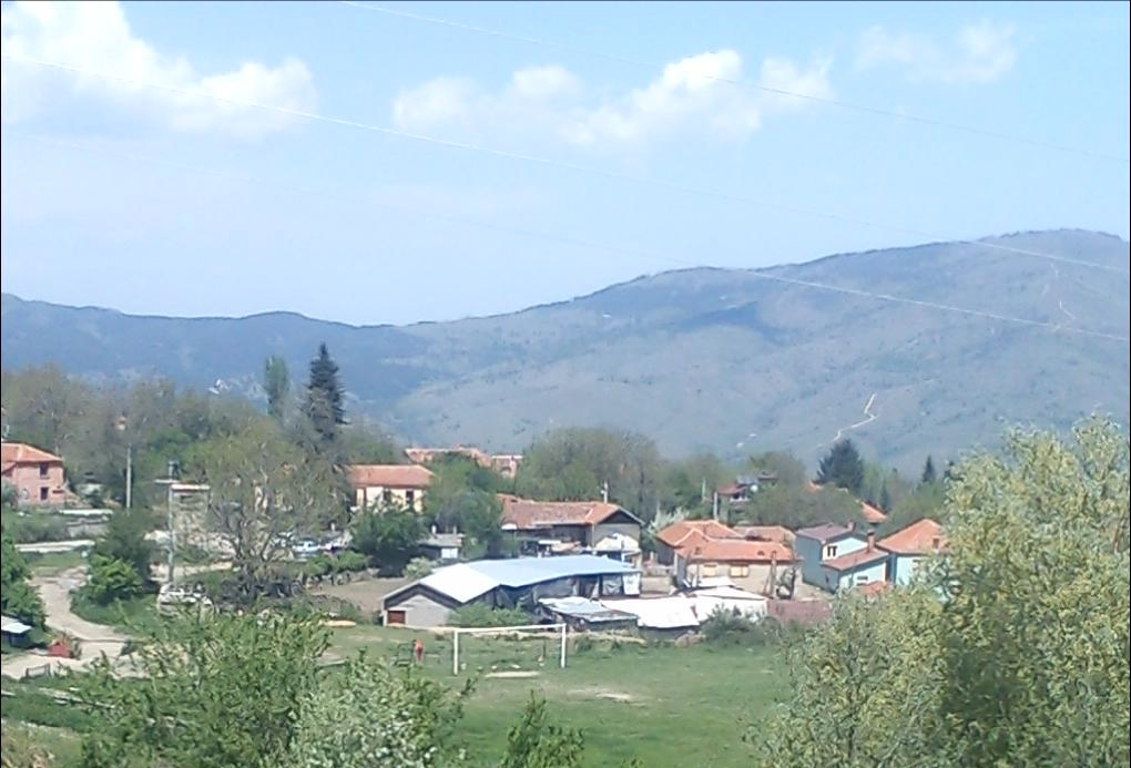 Houses in Trnovo